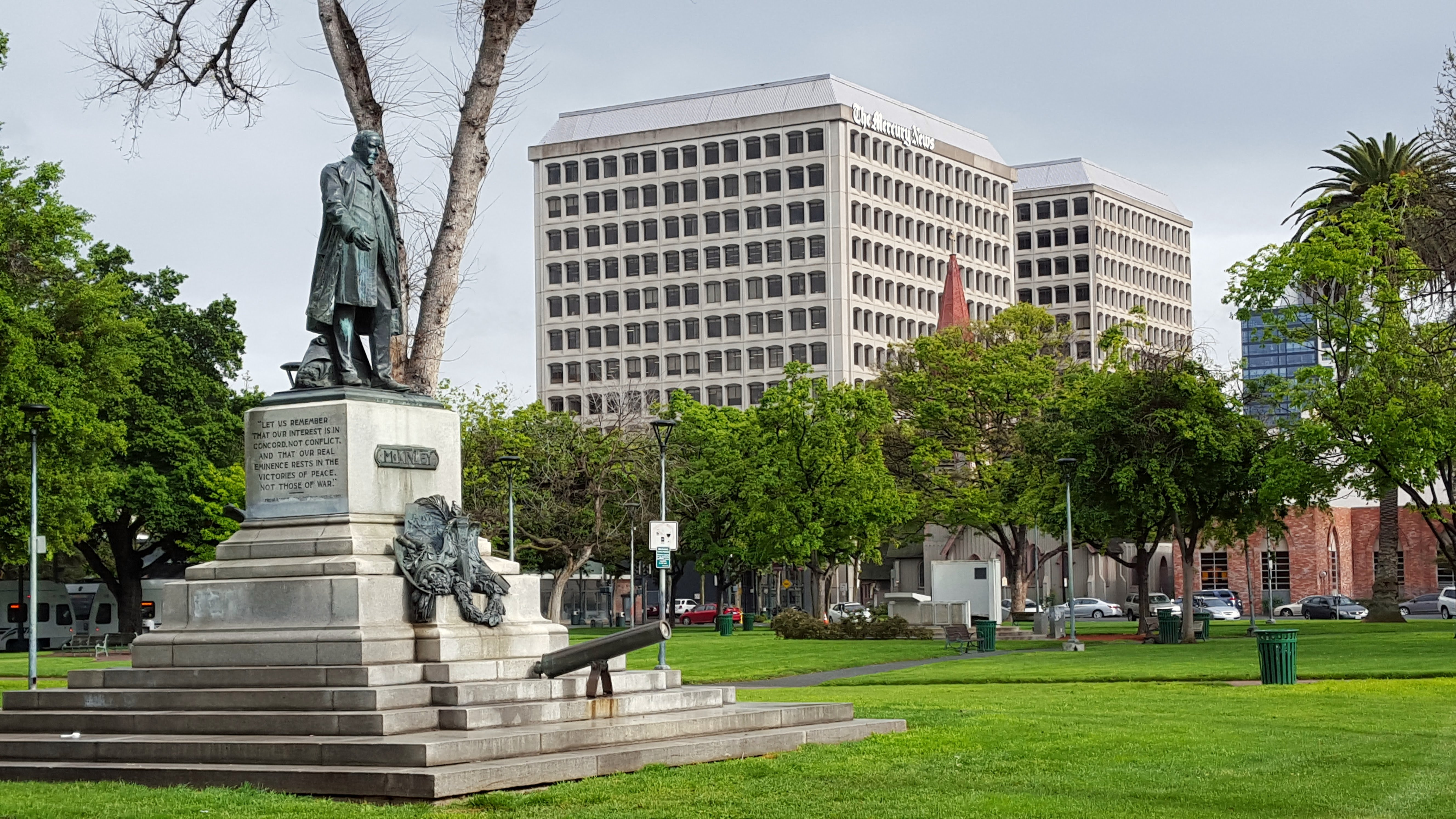 The William McKinley memorial at St. James Park in San Jose, California, United States, with the Towers @ 2nd high-rise office complex in the background. The building closer to the foreground is the headquarters of the Mercury News. Trinity Cathedral is obscured by trees.